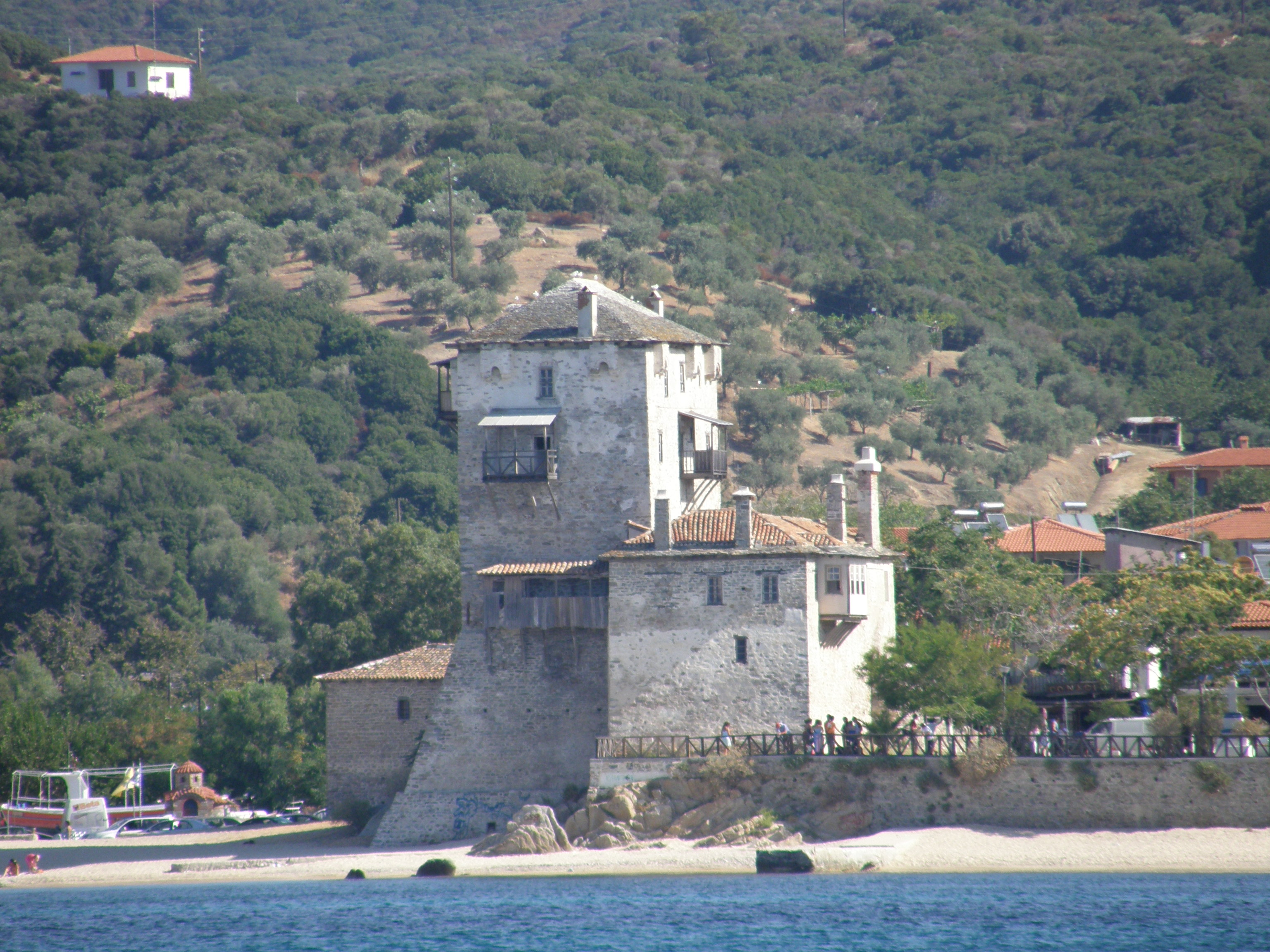 Ouranopolis - Tower